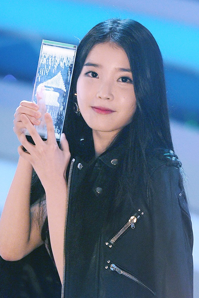 IU at Melon Music Awards, 13 November 2014